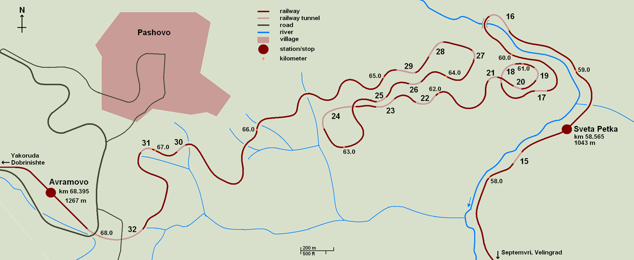 Trackmap